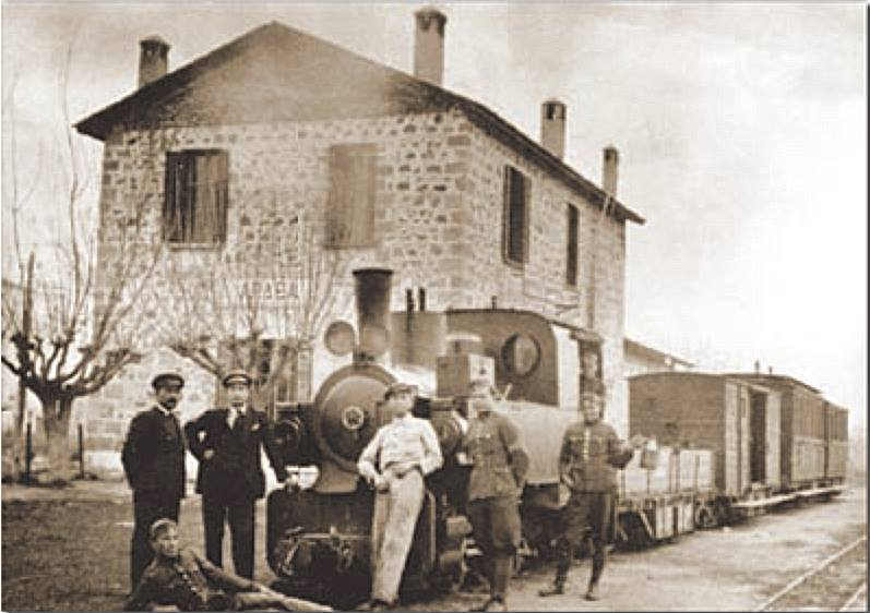 Skydra-Aridea-Orma railway at Aridea station in 1918